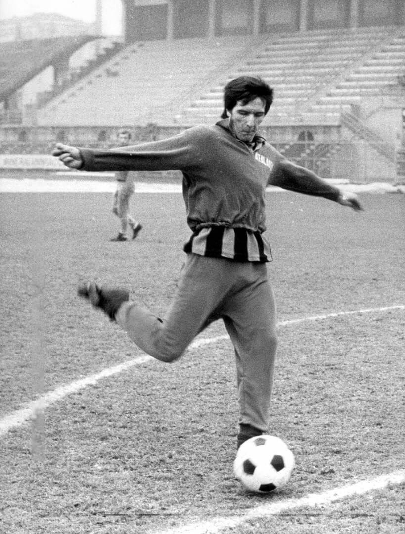 Gaetano Scirea training with Atalanta B.C. (1972-74).